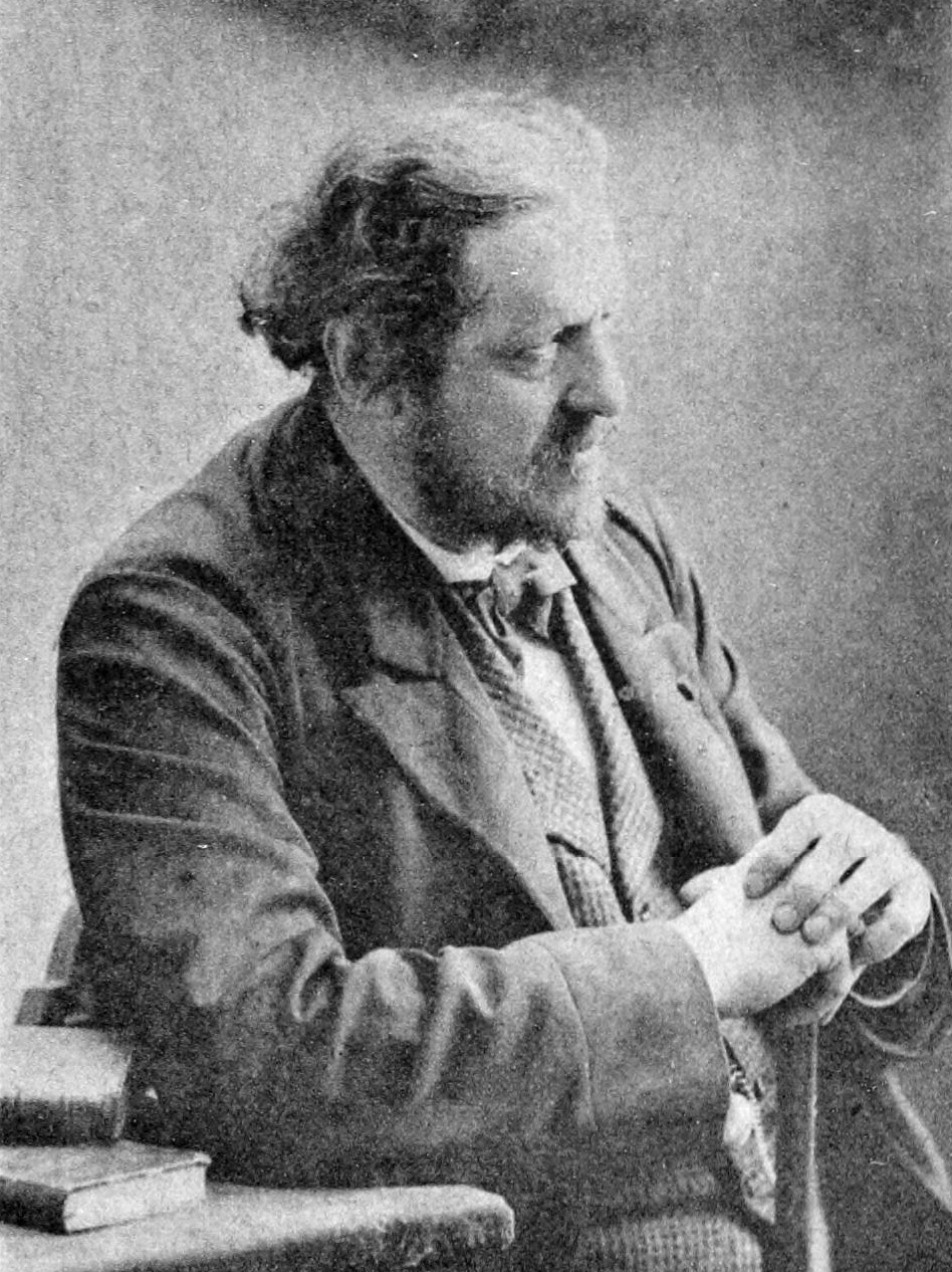 Jules Barbier (1825–1901), French opera librettist